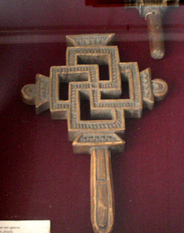 Wooden hand cross from Ukraine. From collection of etnographic muzeum in Kolomyya